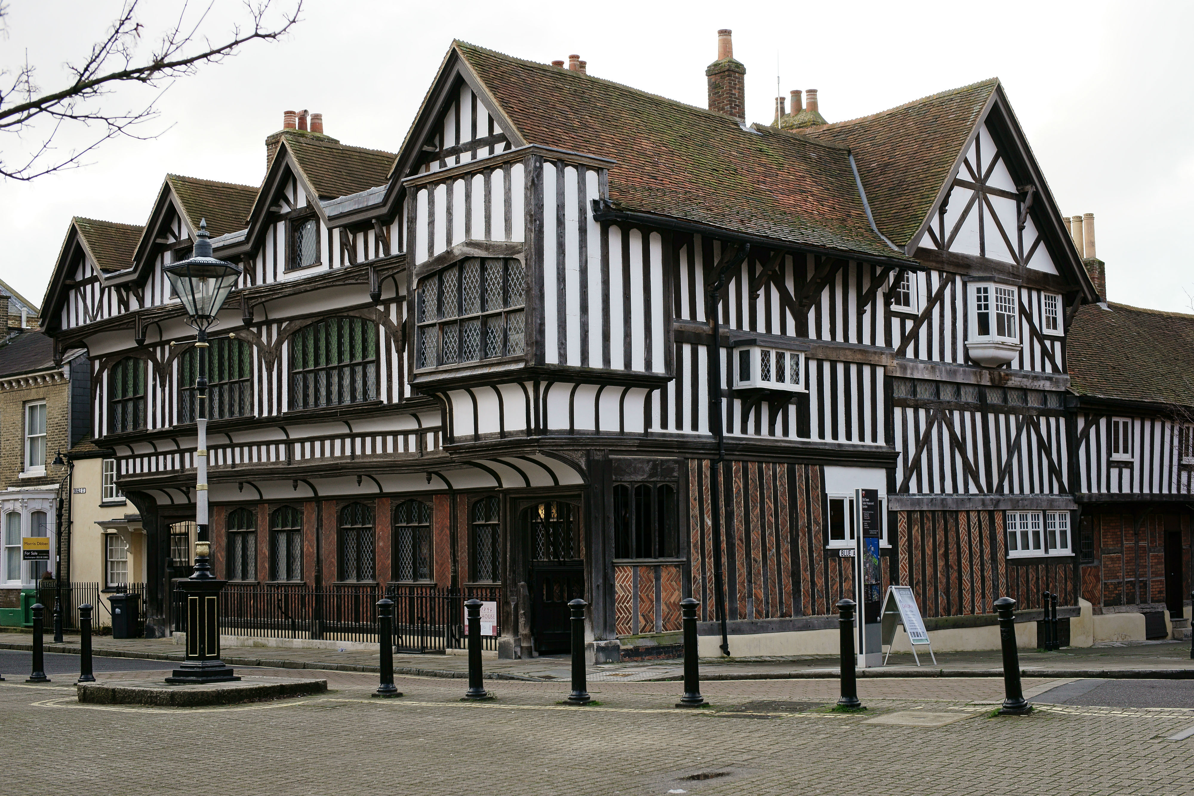 Museum which is located on Bugle Street. The museum has undergone refurbishment, and now has an excellent café overlooking the rear garden. The Tudor House dates from c1492.